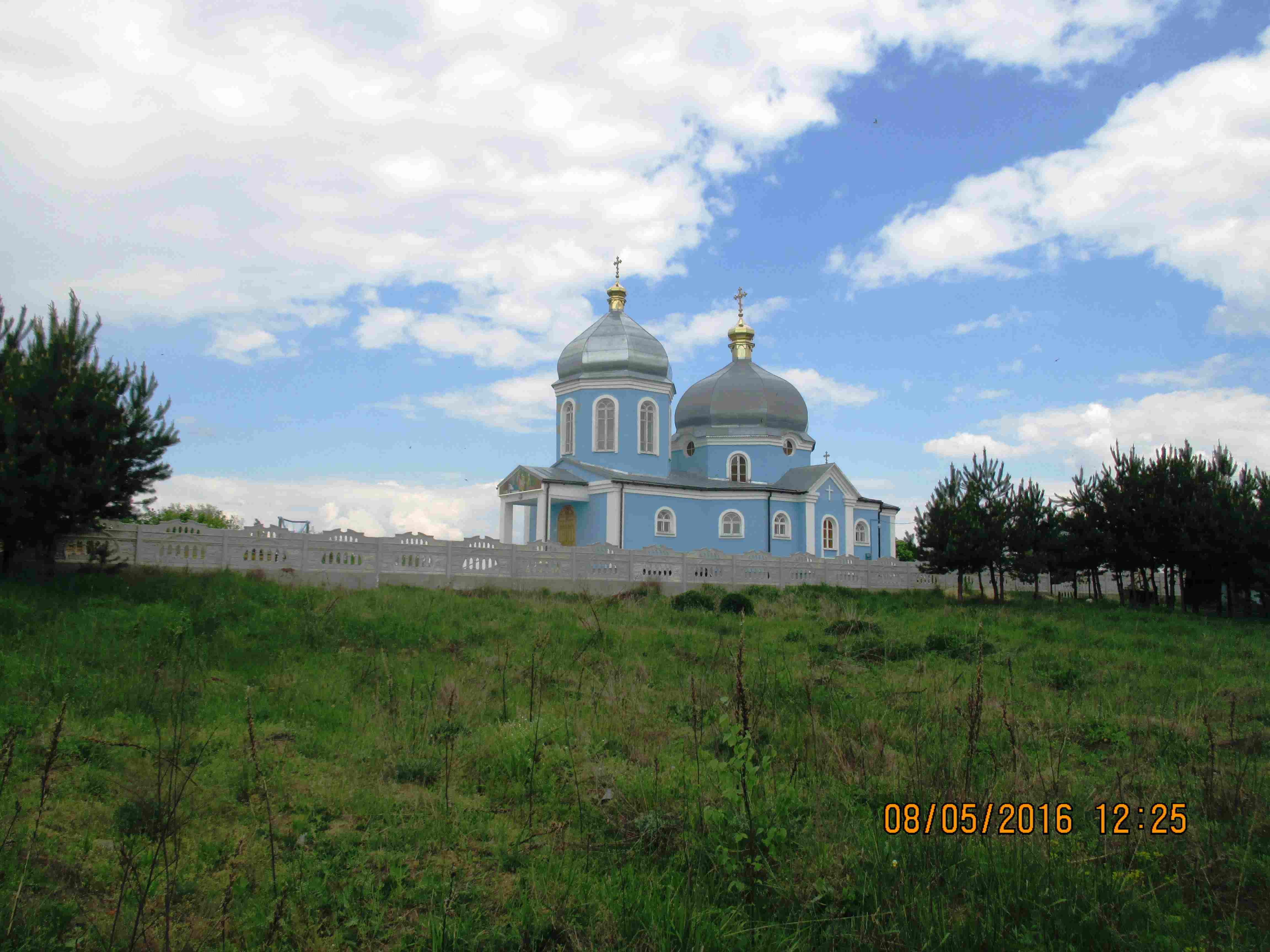 Horodyszcze church